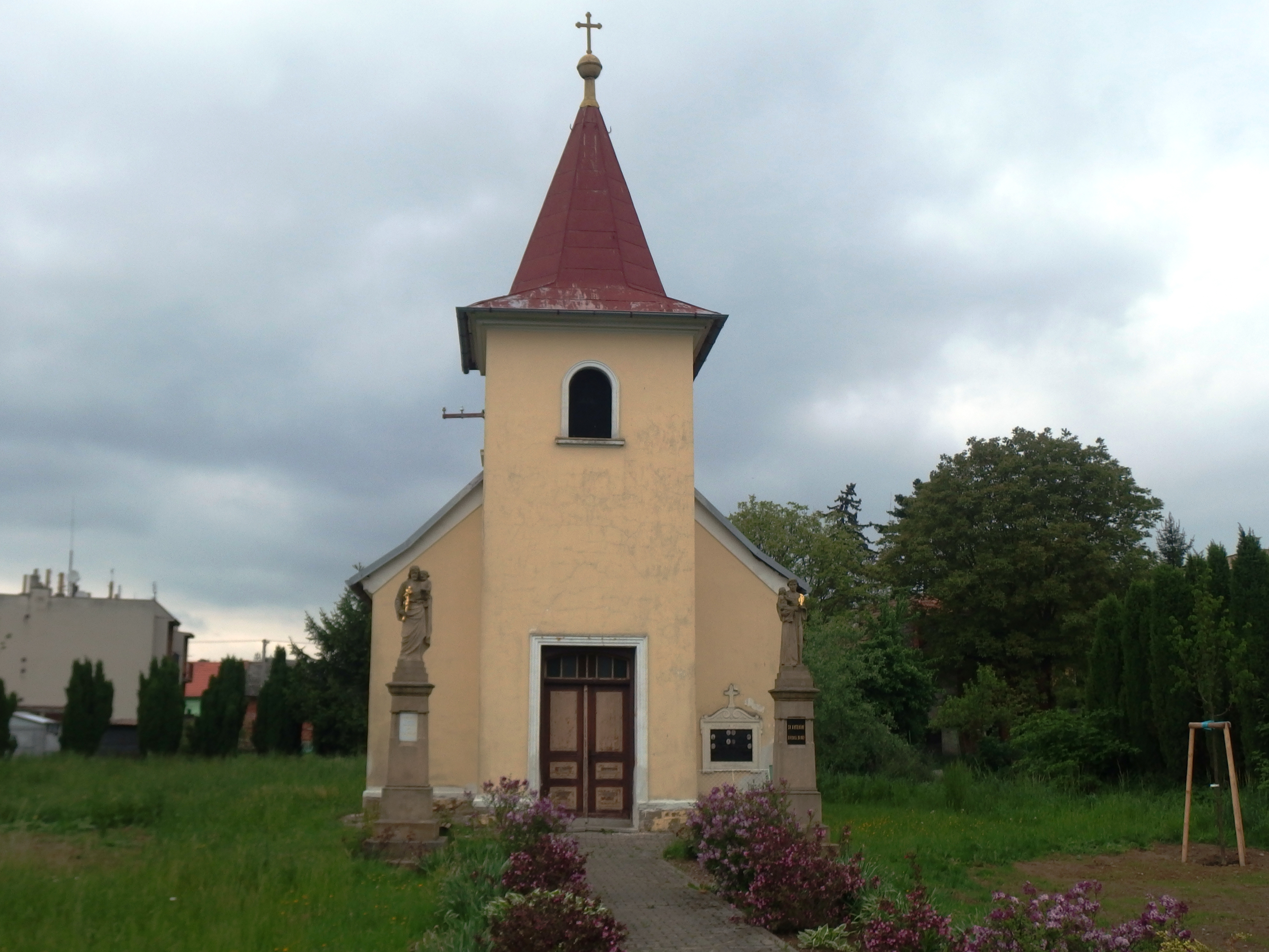 Kladníky, Přerov District, Czech Republic.